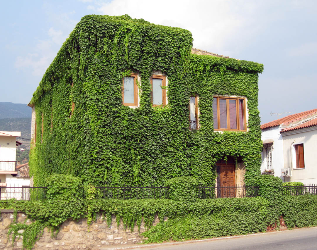 Stone house covered with Boston Ivy, 8 km outside the city of Kalamata